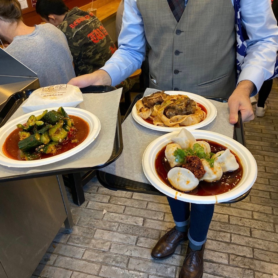 The image shows two trays of food purchased at the Xi'an Famous Foods restaurant on Saint Marks Place in New York City on October 19th, 2019. The tray on the left of the photograph holds a plate of spicy cucumber salad (front) and a stewed pork burger (rear, wrapped in waxed paper); the tray on the right holds a plate of spicy and sour lamb dumplings (front) and a plate of noodles with stewed oxtail (rear).